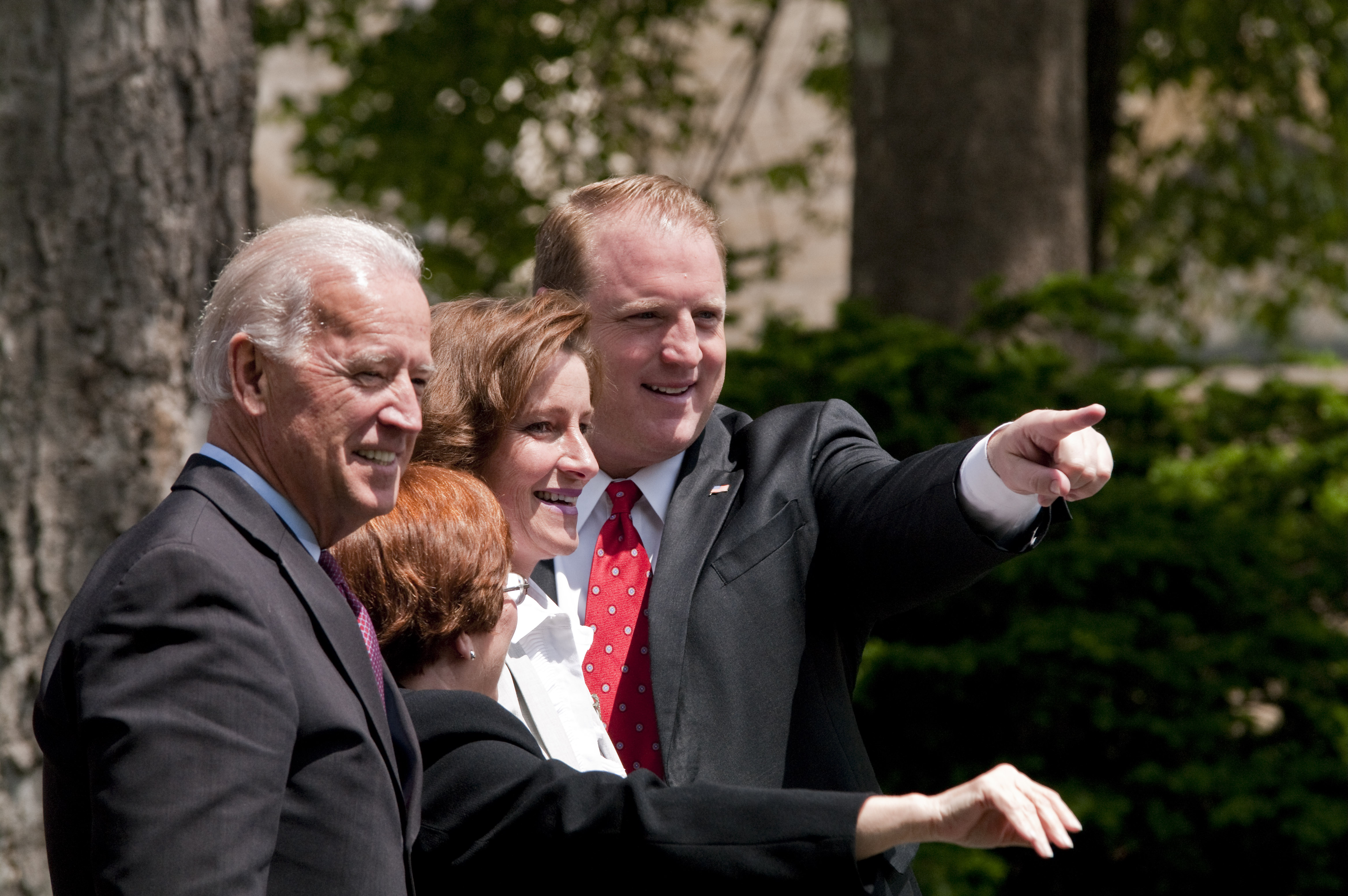 The Vice President Arrives